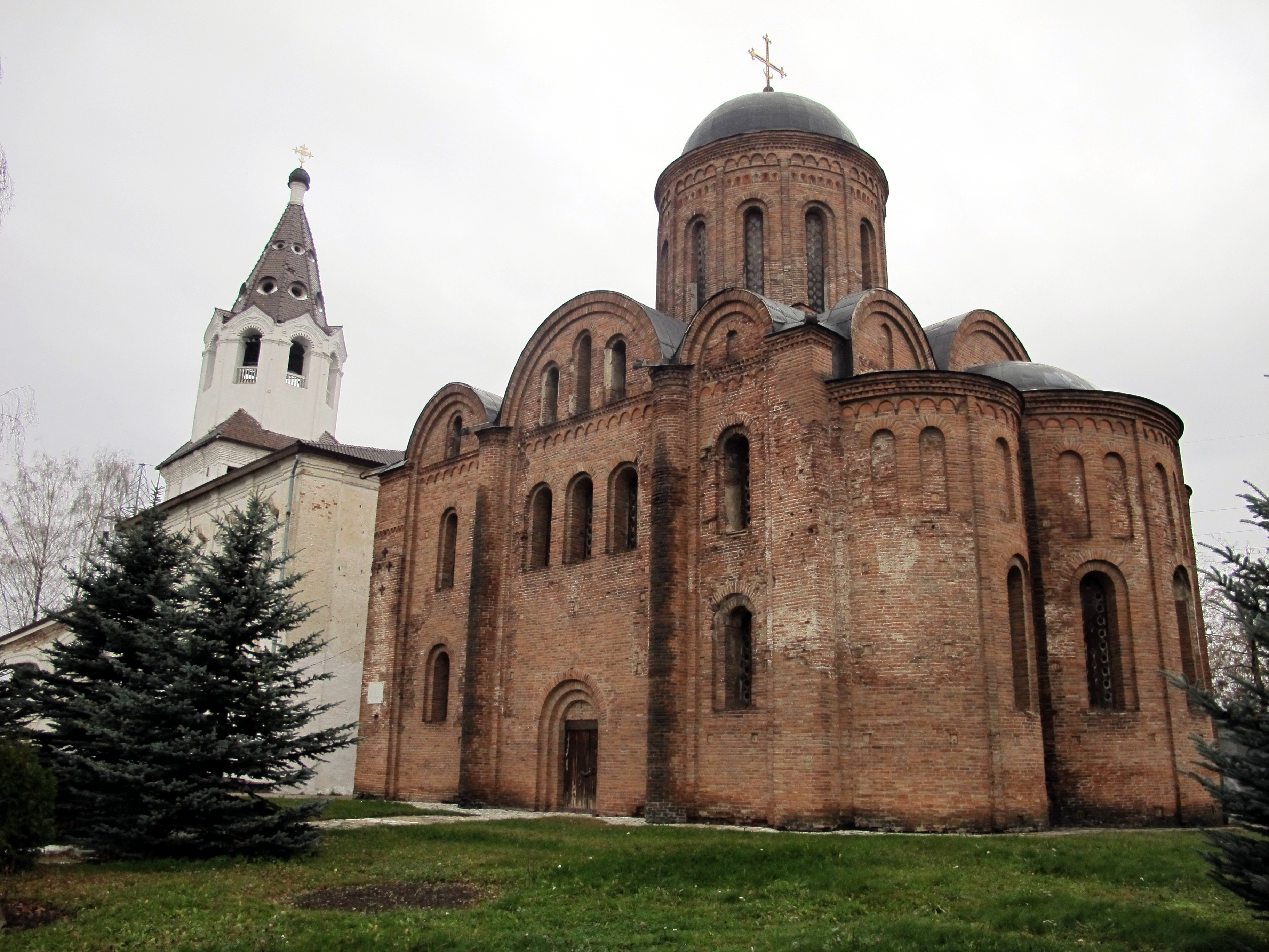 Church of Saint Peter and Saint Paul on Gorodyanka in Smolensk (2013-11-08)